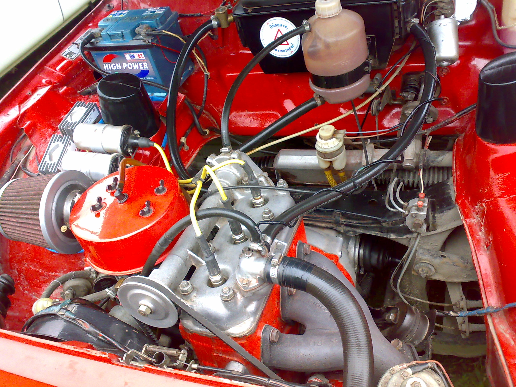 Wartburg 353S engine